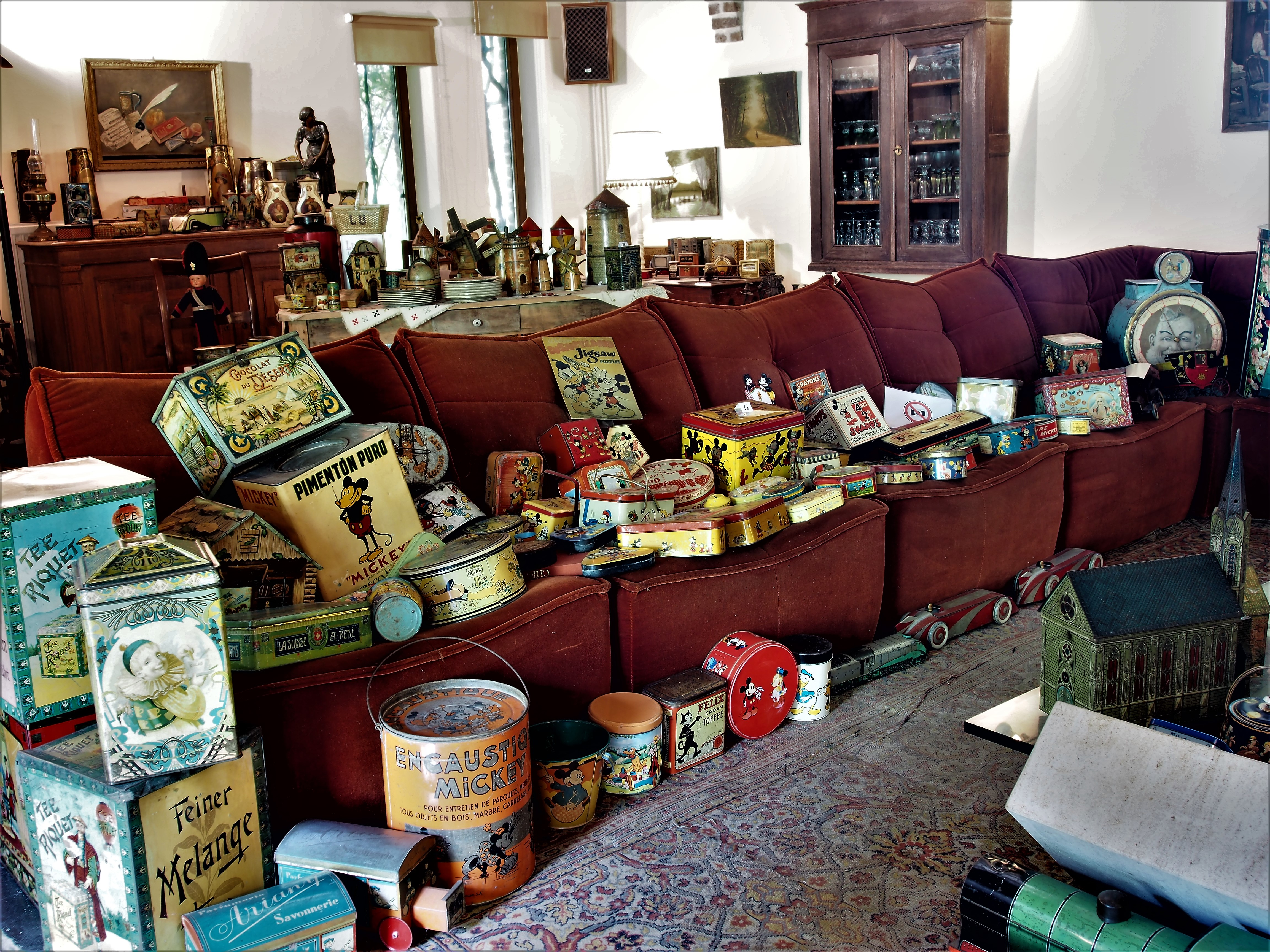 Photographed at the Museum of Lithographed Tin Cans of Yvette Dardenne.